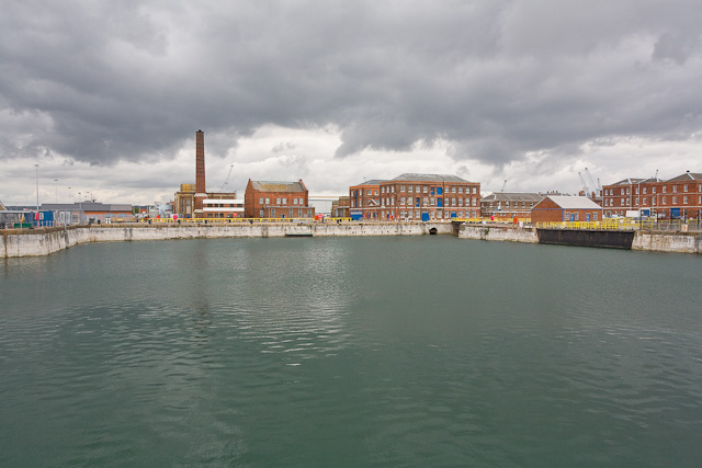 Looking across Basin Number 1